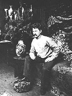 German-American artist, Franz Bischoff (1864-1929)